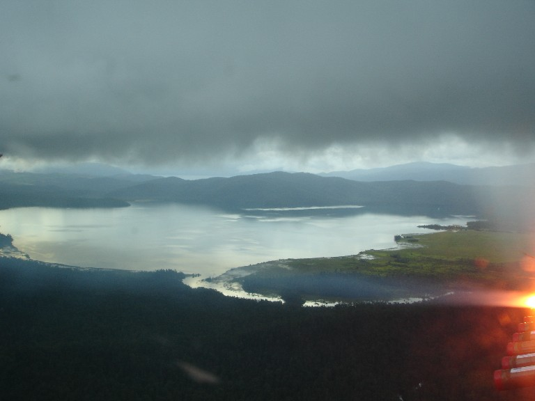 Picture of a cloud base as viewed from an airplane flying just below cloud base. (Vidal Salazar author, picture take in Indonesia, Island of Sulawesi 2005)